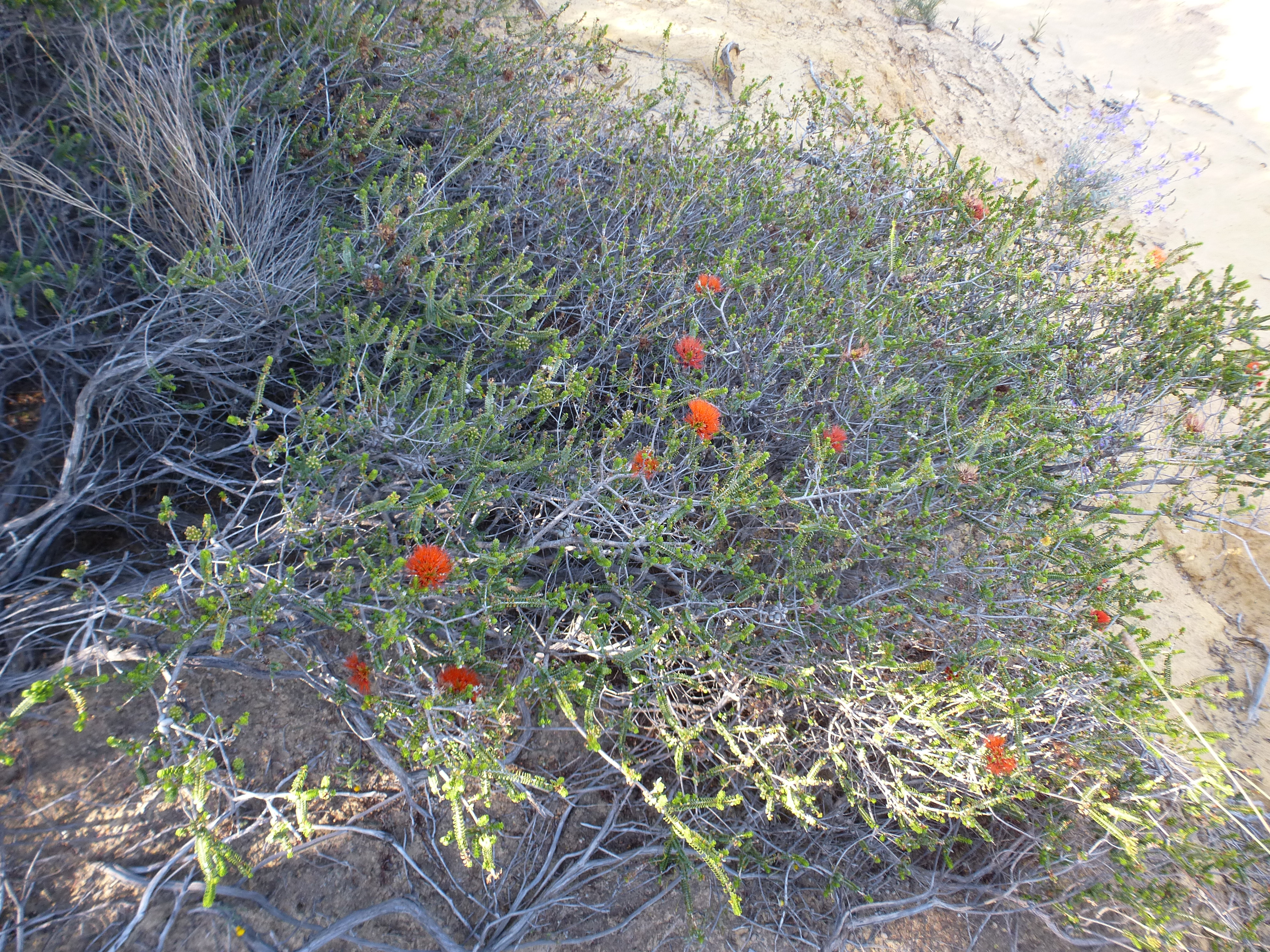 Beaufortia aestiva growing near Binnu